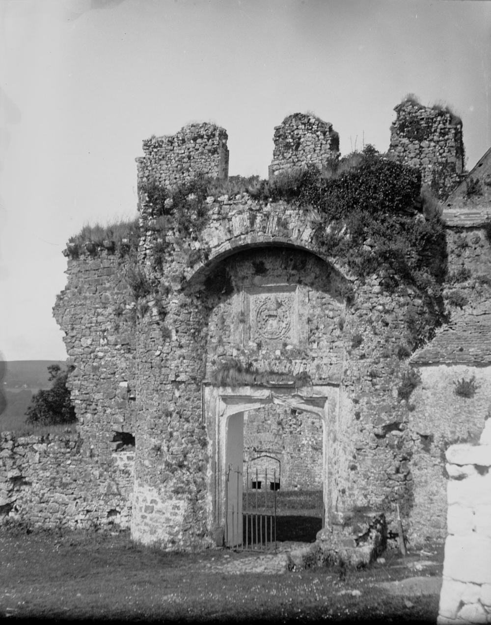 Abstract: Oxwich castle entrance